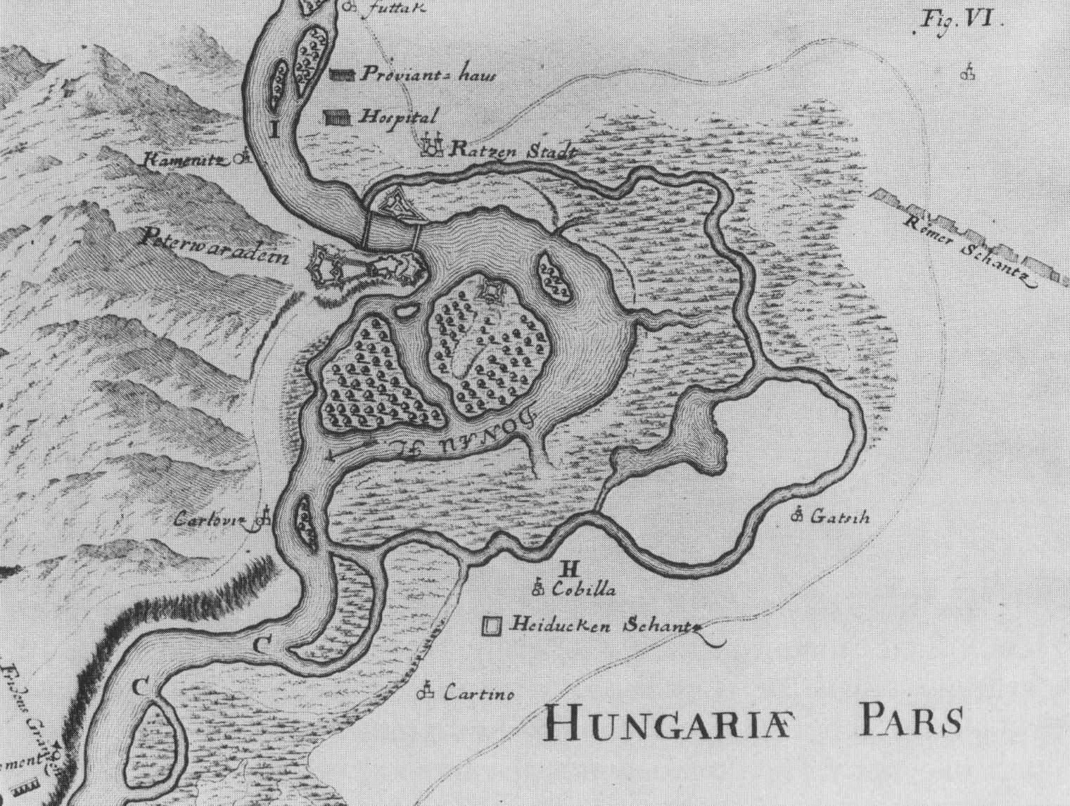 Map of Novi Sad (Ratzen Stadt) with surroundings (beginning of the 18th century).